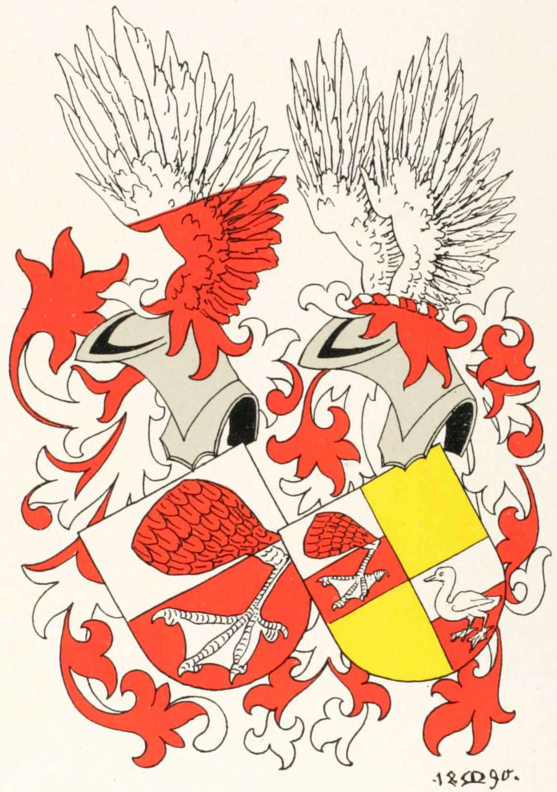 Coat of arms of the Gossler family, a Hanseatic banking family from Hamburg. The original coat of arms adopted in the 18th century to the left, the "improved" coat of arms adopted in the early 19th century to the right.